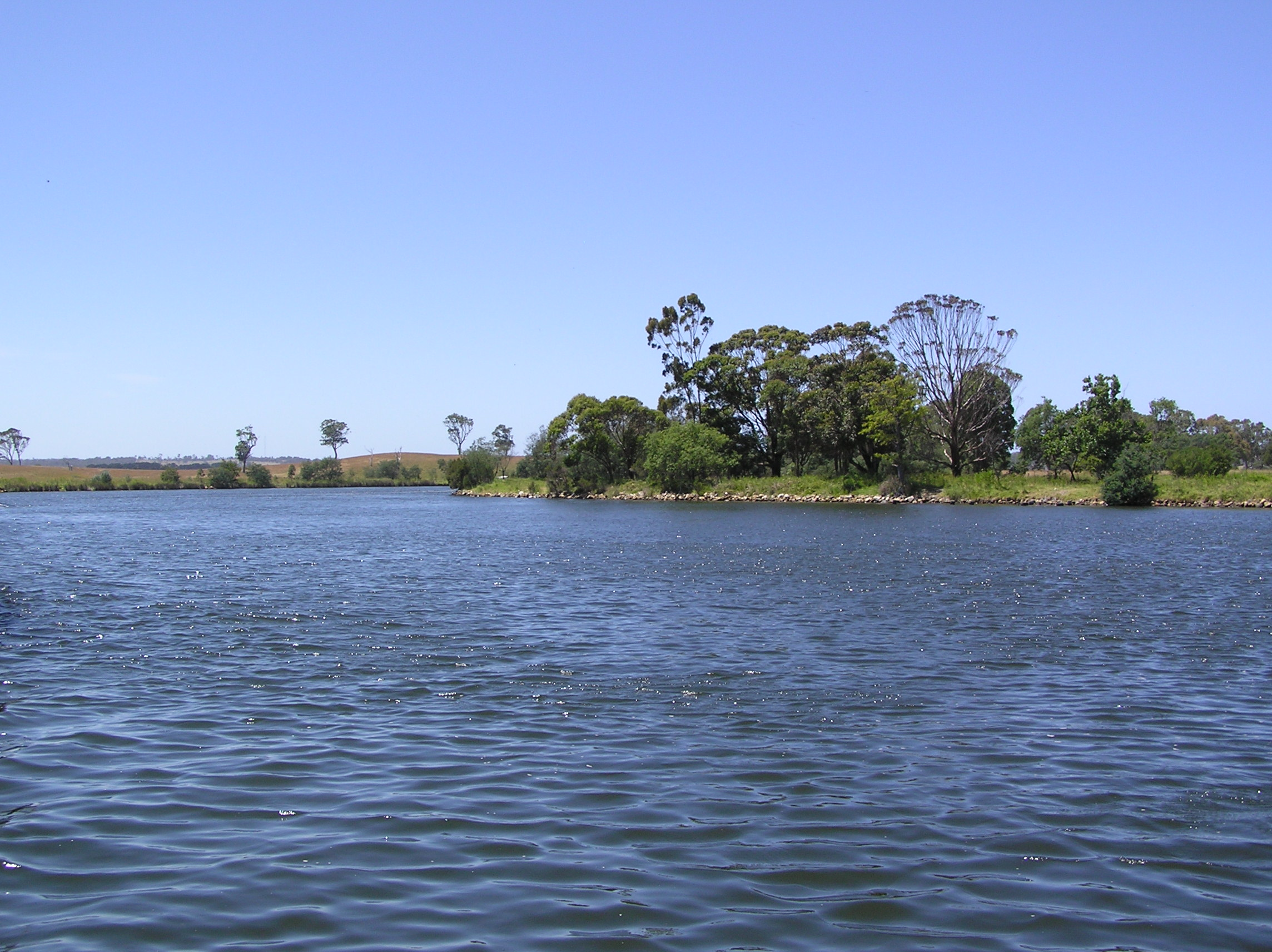 Tambo River and the bend of the Johnsonville boat ramp looking West.